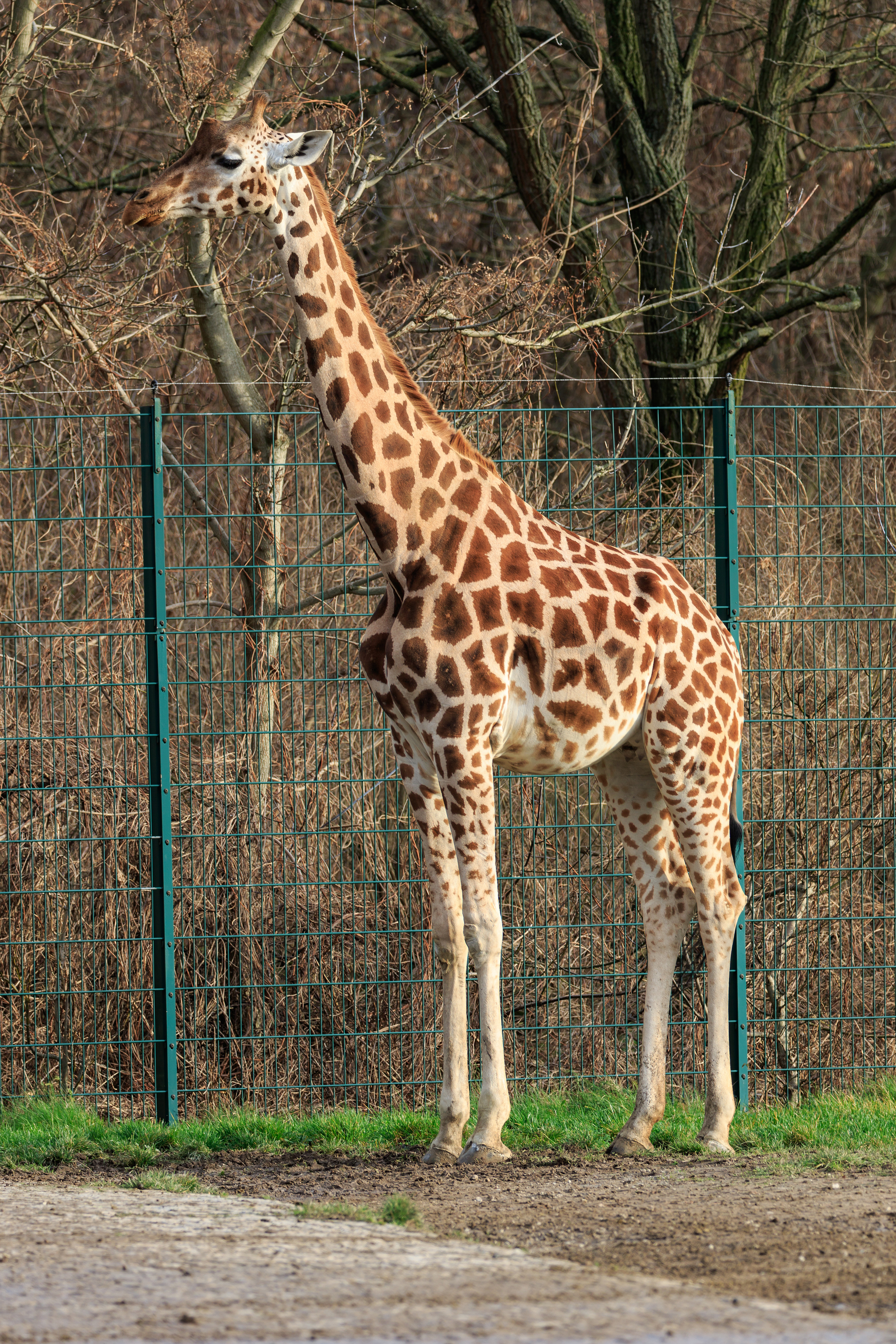 A Rothschild’s giraffe in the Berlin Tierpark (Friedrichsfelde zoo)